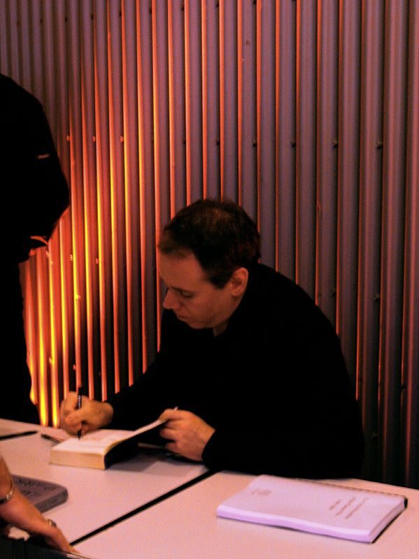 After the reading of Bret Easton Ellis (American Psycho), at Tanzbrunnen Theater, Cologne. People were mad about getting their books signed.